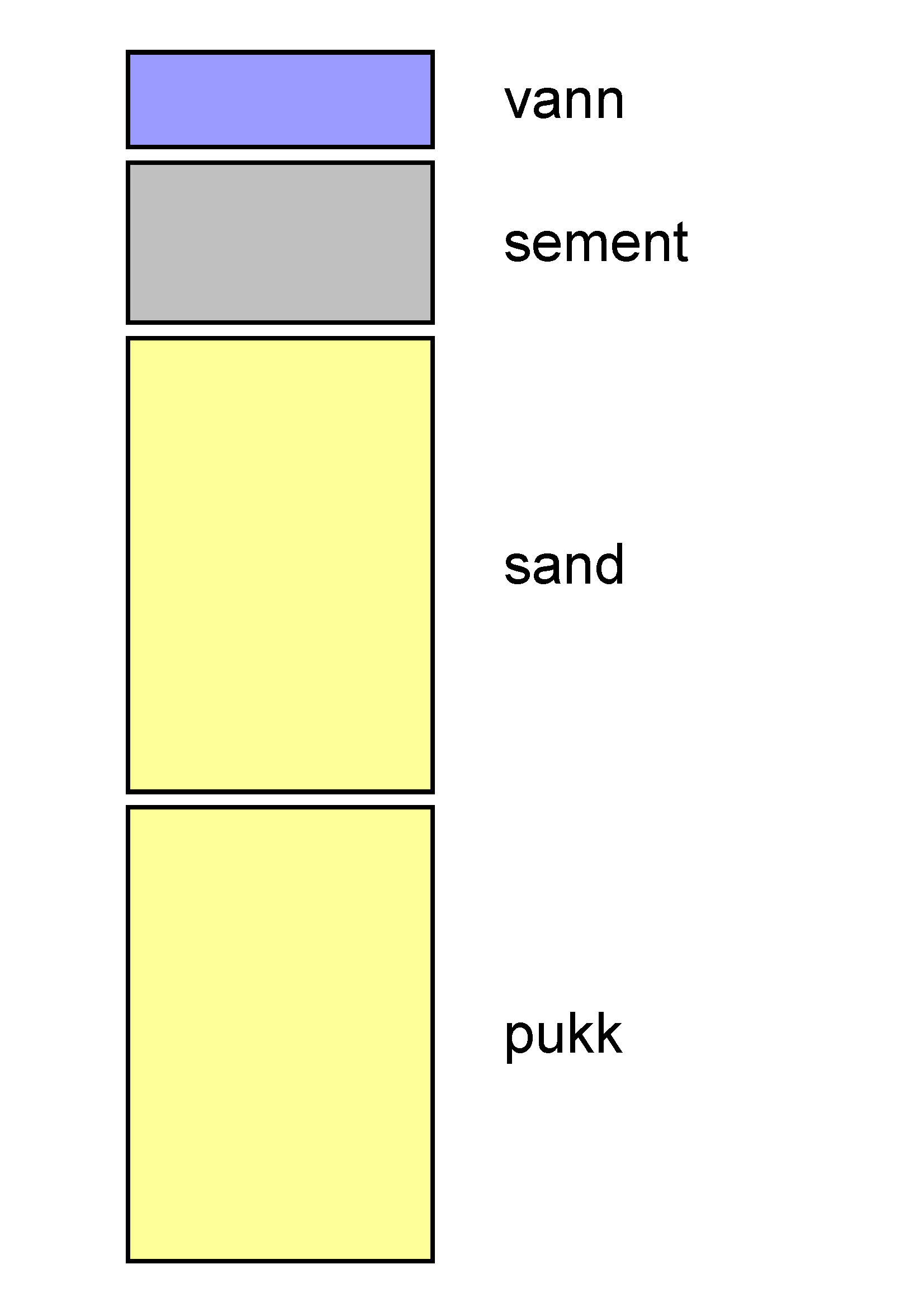 Diagram of concrete components (weight). Text in Norwegian (vann/sement/sand/pukk means water/cement/sand/gravel). Created by JohnM.